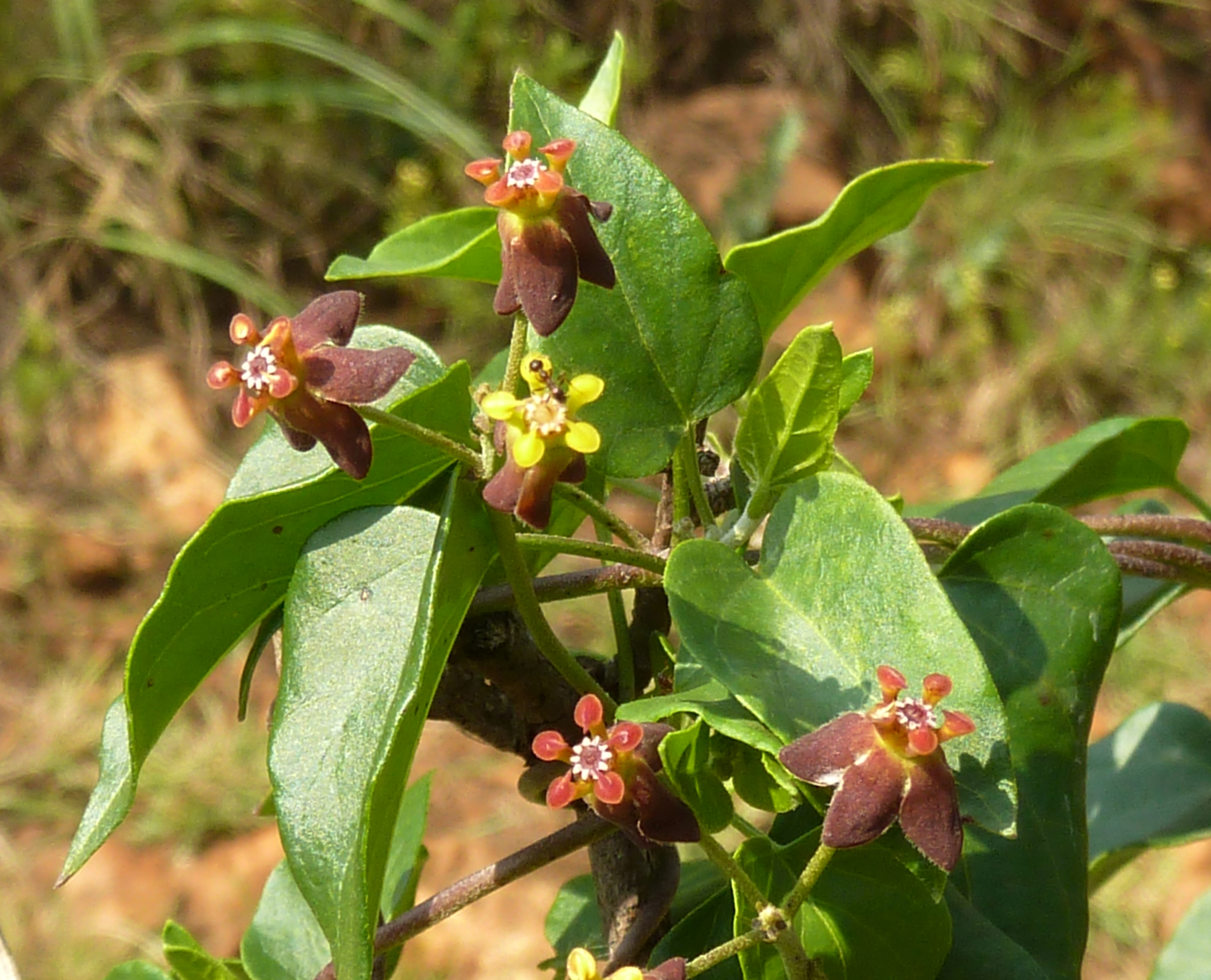 Foliage and flowers of an African heartvine in Groenkloof Nature Reserve